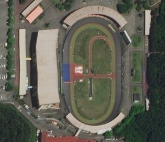 Satellite view